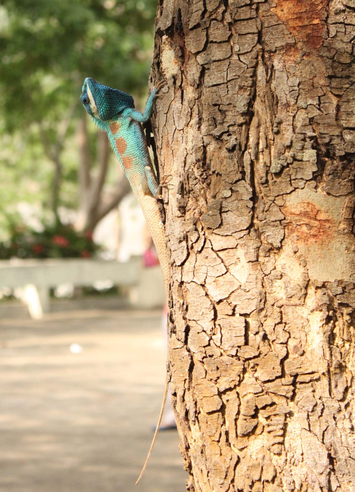 Calotes mystaceus is a species of agamid lizard from Southeast Asia.